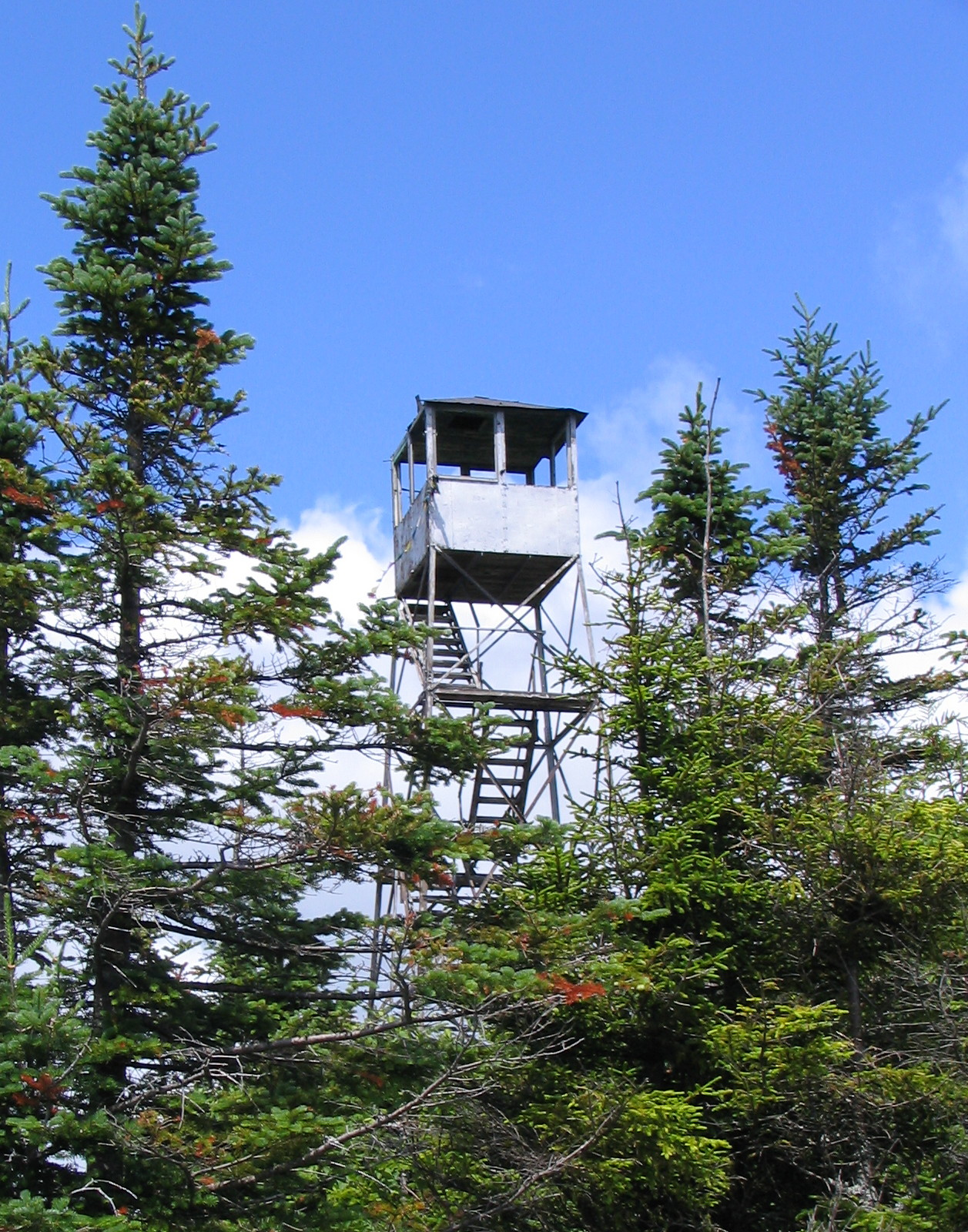 Saint Regis Mountain fire tower, Keese Mills, NY, USA.